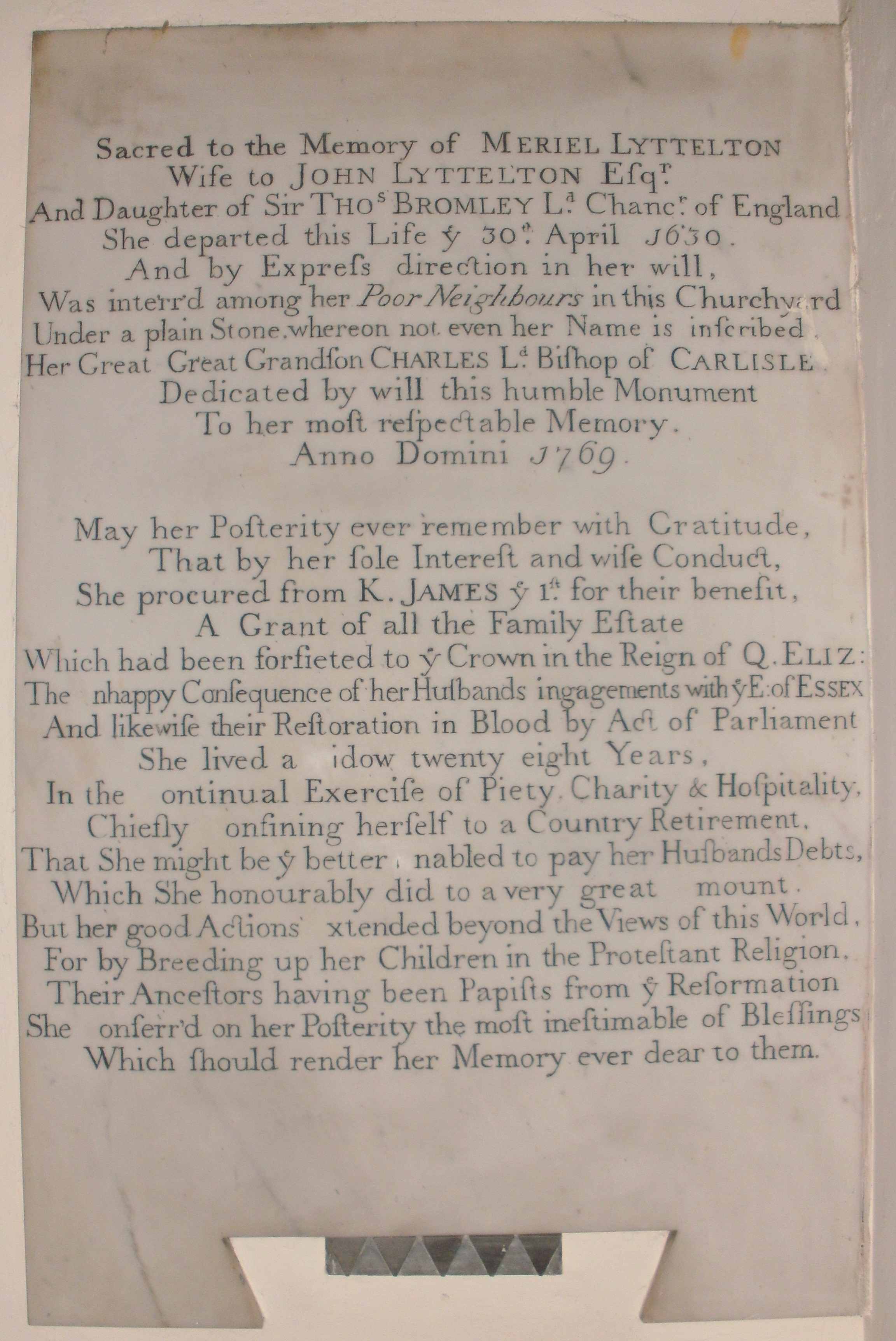 Hagley, St John the Baptist - interior, memorial from 1769 to Meriel Lyttelton (née Bromley, died 1630). She was a daughter of Sir Thomas Bromley (1530–1587), the Solicitor General and Lord Chancellor of England, and married Sir John Lyttelton (1561–1601), a Member of Parliament for Worcestershire during the reign of Queen Elizabeth I.